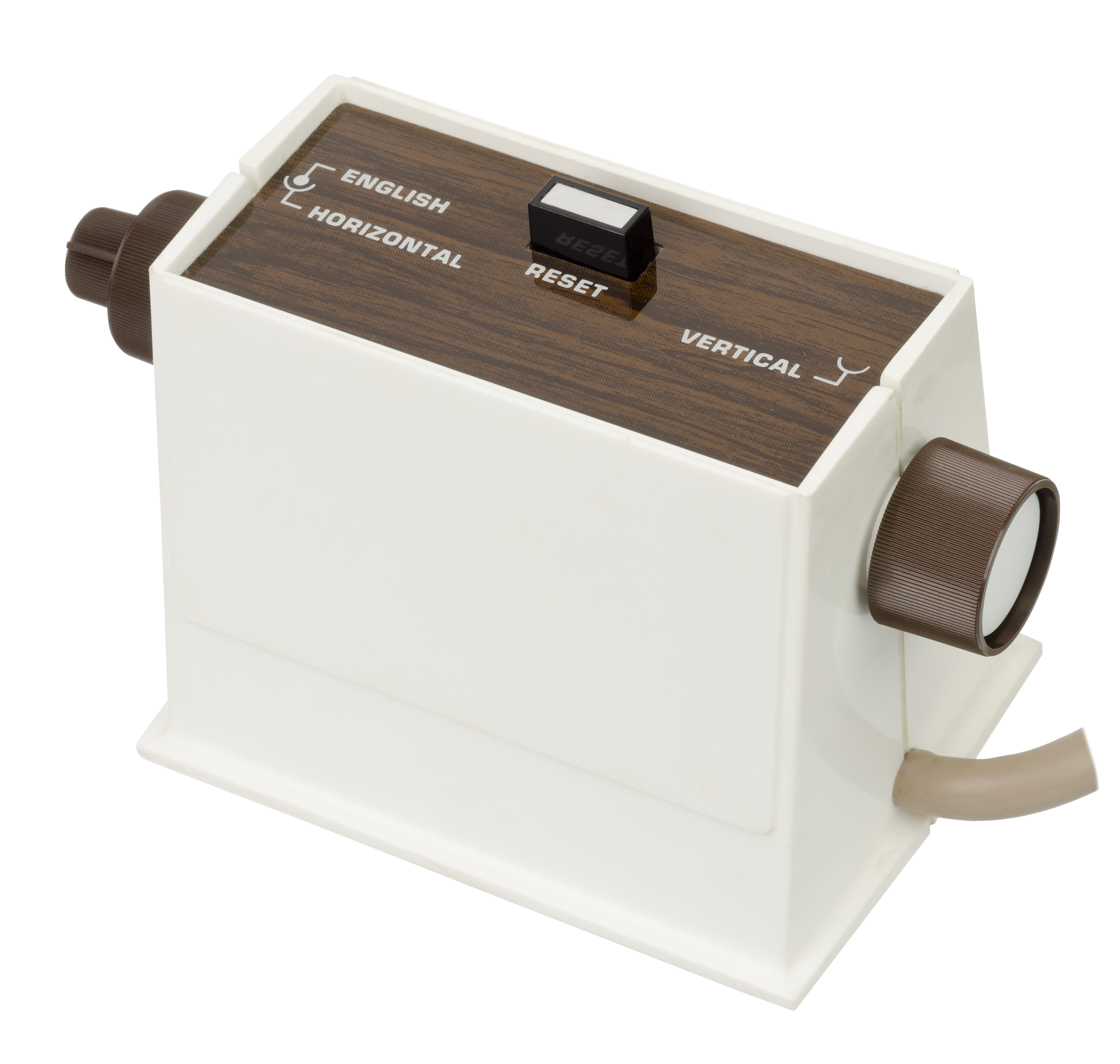 The controller of the Magnavox Odyssey, the very first video game console. Released in 1972, the Odyssey was a simple and crude device that generated shapes on the television that could be controlled and interacted with. It only produced black and white graphics and had no sound, but was limited to only using discreet components like diodes and transistors. It was replaced in 1975 with the Magnavox Odyssey series, a line of dedicated Pong consoles.